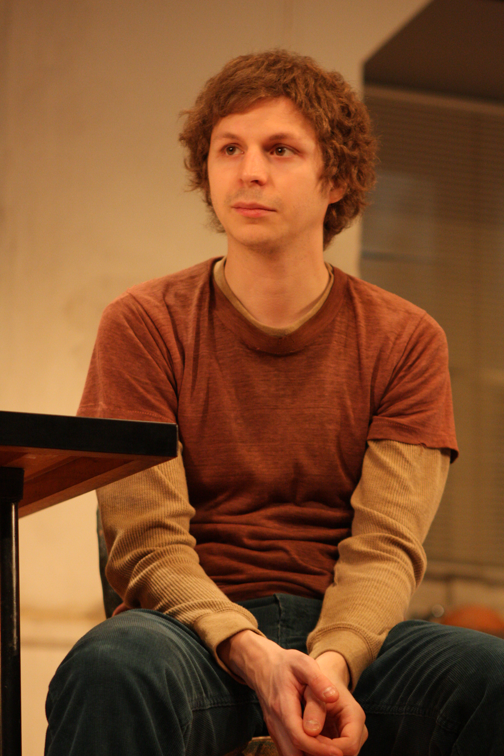 This is Our Youth New York 1980s Play Comes To Sydney Opera House